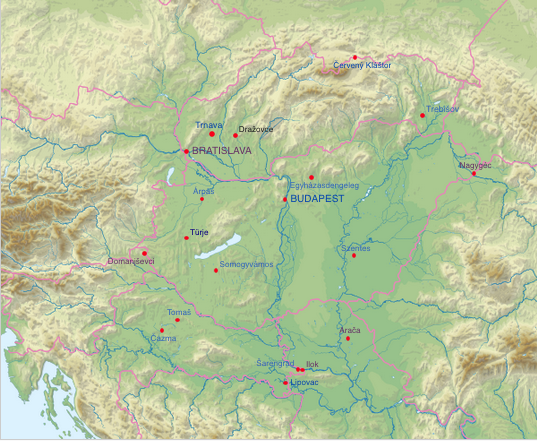 Distribution of Brick Gothic buildings in Finland